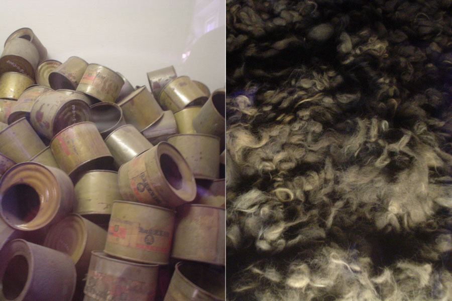 Photos of empty poison gas canisters and the hair of Jews, taken inside the memorial museum in the Auschwitz camp. z Taken by User:Palthrow. A picture (left) of Zyklon B canisters which produce a deadly gas. (Right) human hair from the people sent to these camps